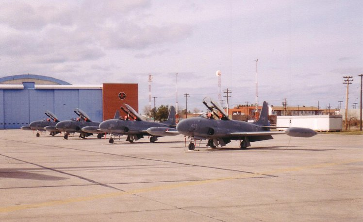 I took this photo of a line of 417 Squadron CT-133s at CFB Cold Lake